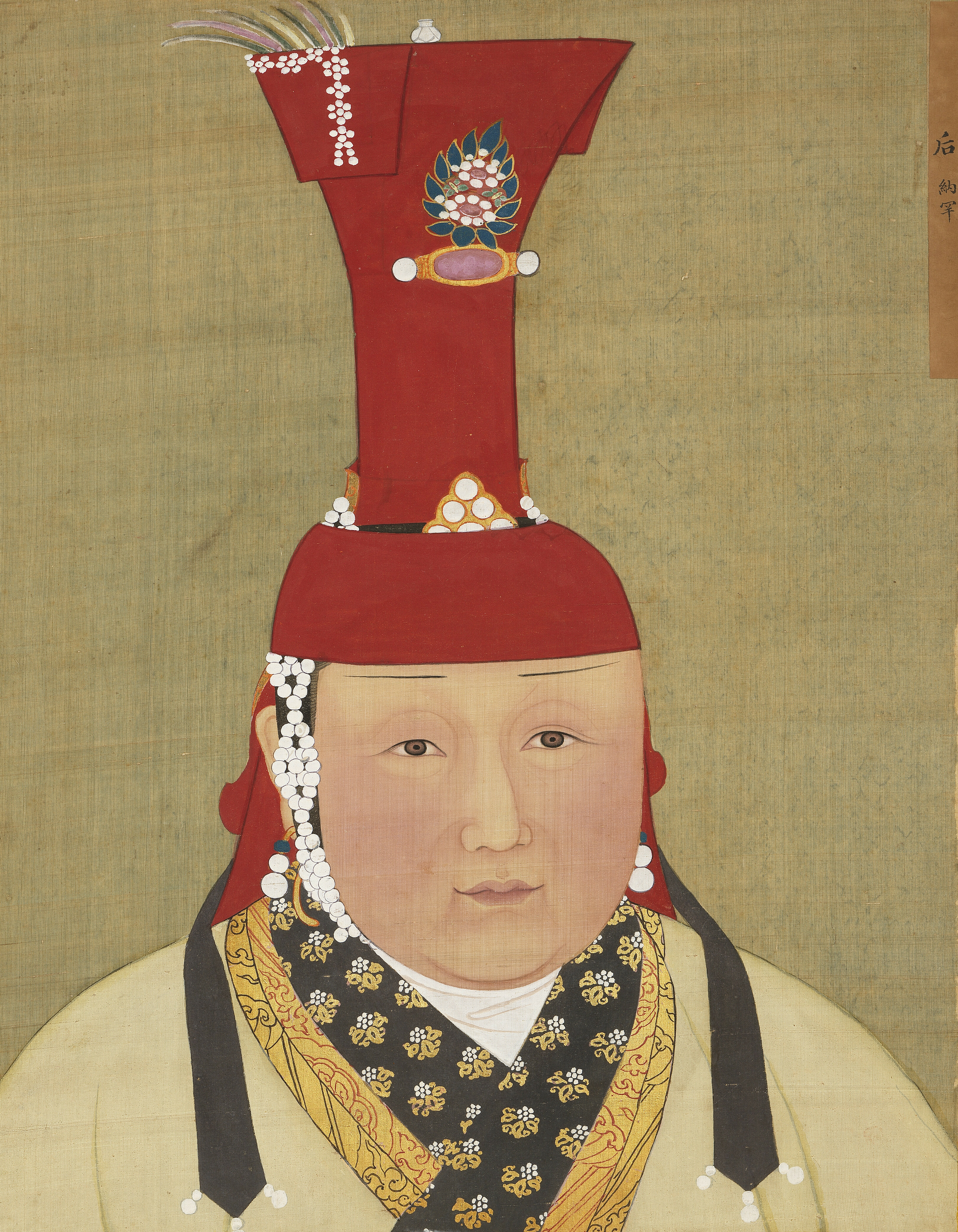 an imperial consort named Nahan, her husband is not indicated. Paint and ink on silk. Portrait cropped out of a page from an album depicting several consorts of Yuan emperors (Yuandai dihou banshenxiang), now located in the National Palace Museum in Taipei (inv. nr. zhonghua 000325). Original size is 48 cm wide and 61.5 cm high. For the full page, see Image:YuanEmpressAlbumNahanAndUnnamedEmpressI.jpg.jpg. Note: Some rows or columns of pixels near the margins of the pic may have been manipulated by me (Yaan) for optics. For an unaltered (except cropping) version, see the image at Image:YuanEmpressAlbumNahanAndUnnamedEmpressI.jpg.jpg.